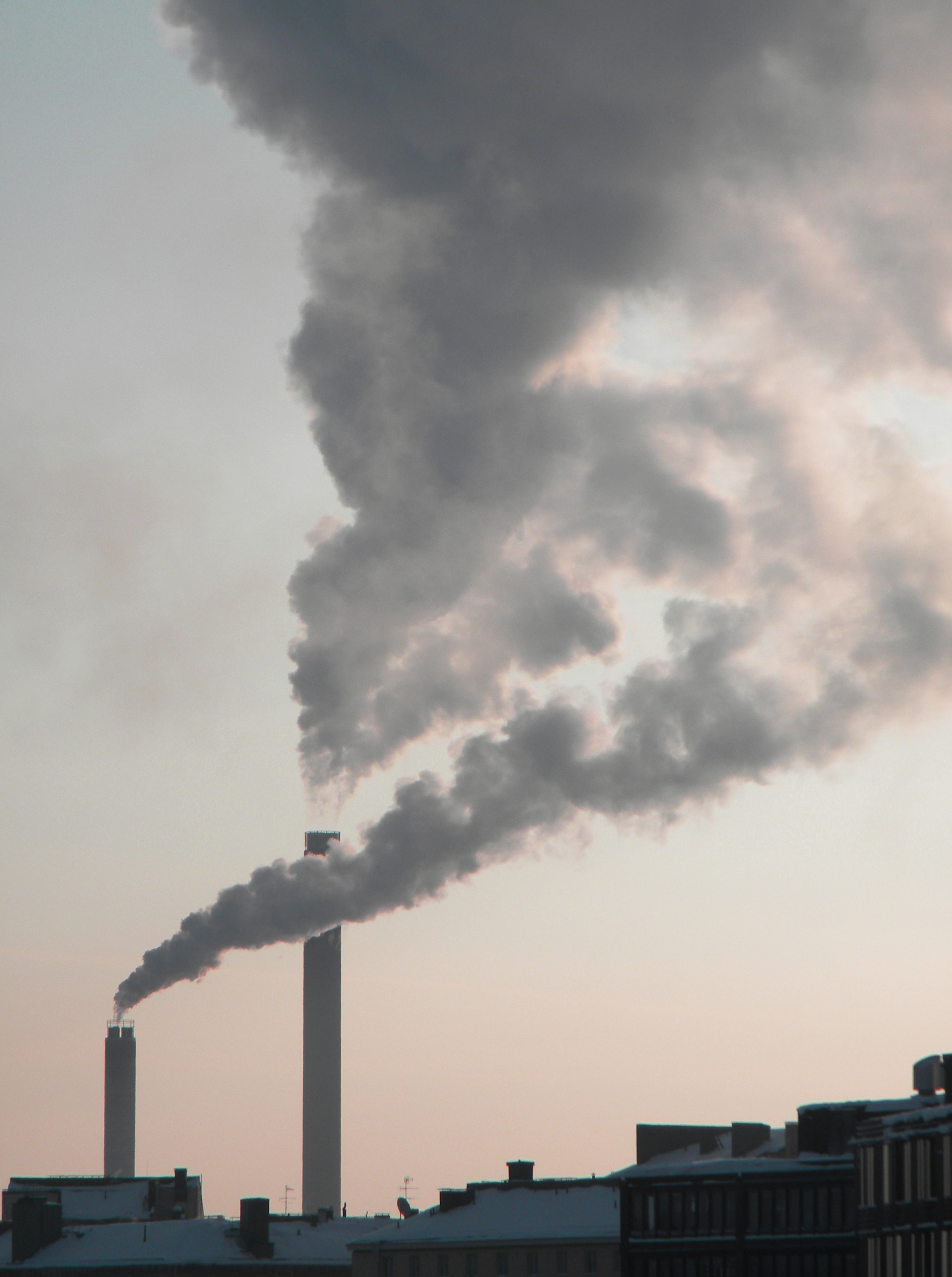 Smoke plumes from chimneys of a power plant in Helsinki, Finland.